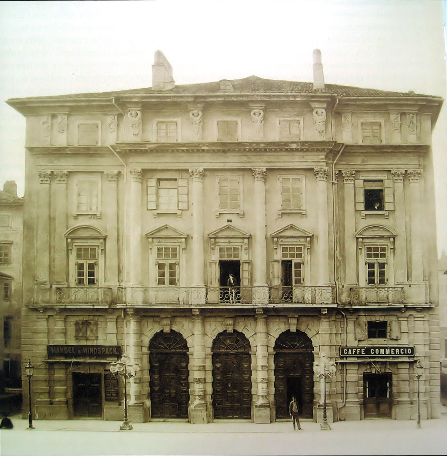 Building of Teatro Comunale Adamić, Rijeka